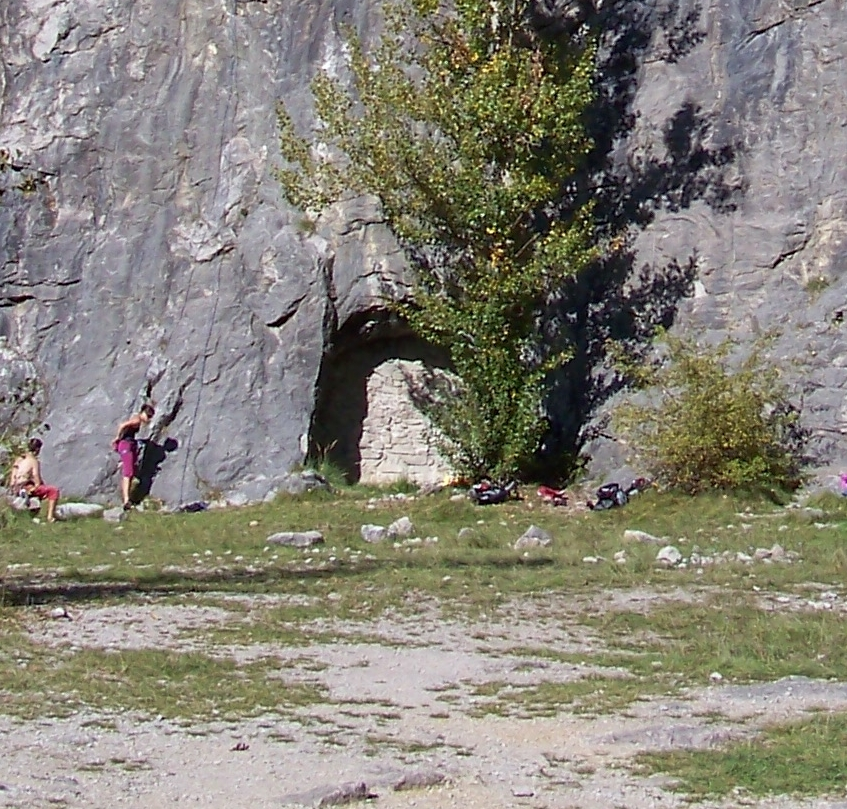 Hostím Repository at the Limestone Alkazar - Google Maps - Google Earth